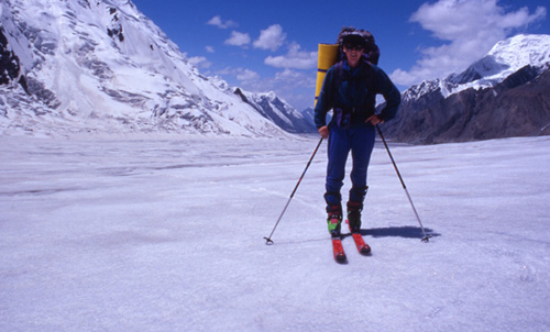 Ski mountaineering on the North Inylchek Glacier, Kazakhstan